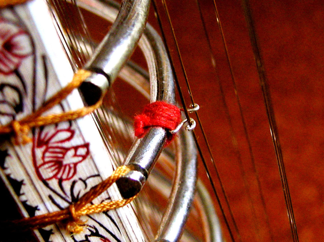 detail of wire hook used to hold two bass sitar strings